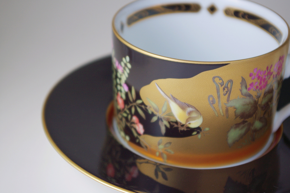 Photo of Rimpa Collection Coffee Cup & Saucer by Masuda Arts, Yokohama Japan